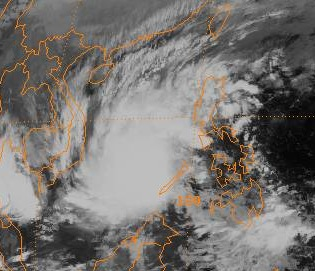 Typhoon Faith on December 12, 1998